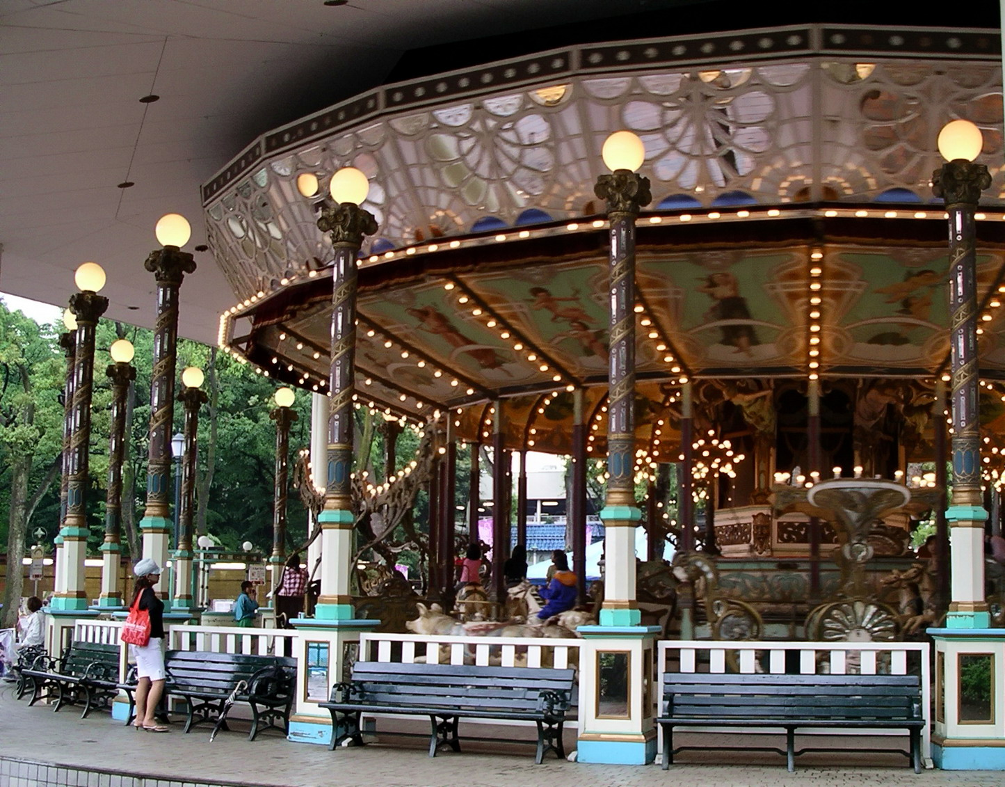 El Dorado, the oldest working carousel in the world. Carousel El Dorado of Toshimaen, the oldest in Japan and oldest class in worldwide, produced by Hugo Haase (German, 1857-1933) in 1907, travelled in Europe, then moved to Steeplechase Park of Coney Island, New York in 1911, operated till 1964, then purchased, refurbished and operate in Toshimaen since 1971. Certified Mechanical Engineering Heritage (Japan) No. 38 in 2010.